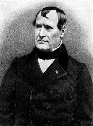 Pierre Flourens, French physician and biologist.